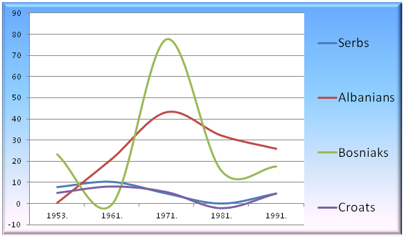 Percentage of the population growth of the four largest nations in Yugoslavia (Serbs, Croats, Bosniaks and Albanians) per decade, from 1953 to 1991. Bosniaks and Albanians experienced the largest growth (Bosniaks over 70% in in the period of 1961-1971, and Albanians up to 44% in the same period), while Serbs and Croats had modest ones.